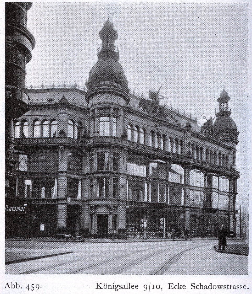 Café Cornelius Geschäftshaus Königsallee 9 bis 10 Ecke Schadowstraße und Blumenstraße in Düsseldorf, erbaut 1896 bis 1897, Architekten Klein & Dörschel. Das Cornelius-Haus befand sich an der Königsallee 9/10 (heutige Hausnummer 18)